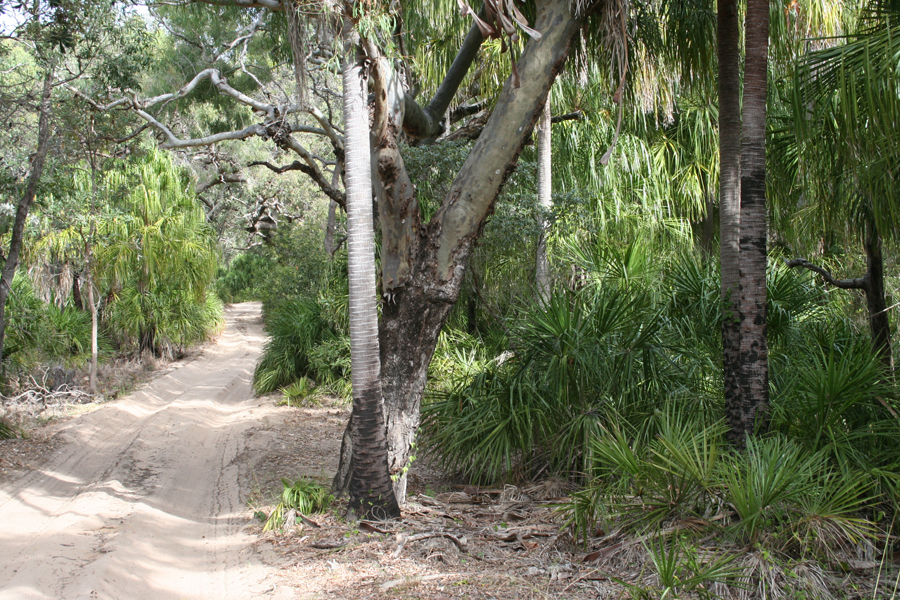 Track into Deep Water National Park, Queensland